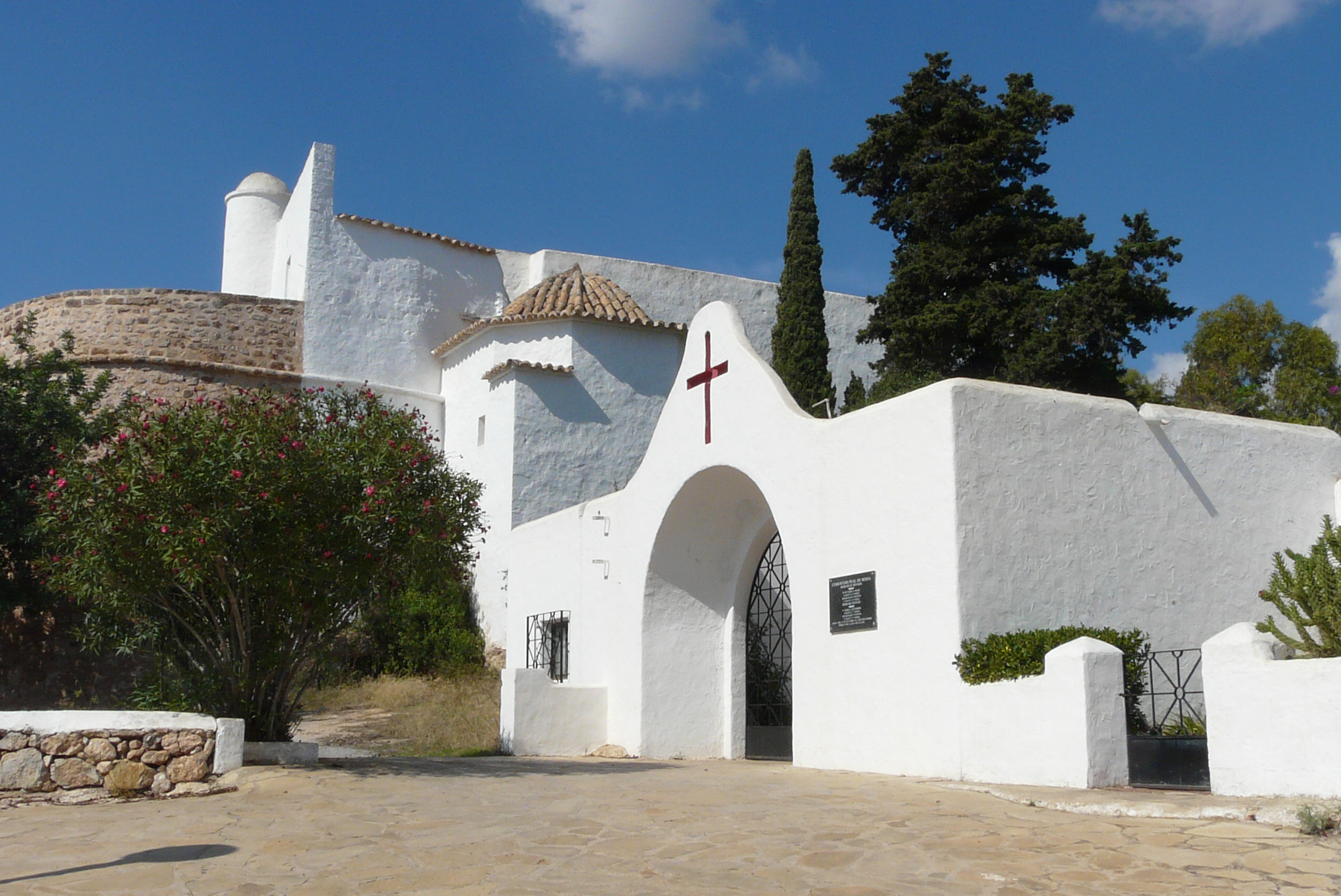 Church Puig de Missa in Santa Eulària des Riu, Ibiza